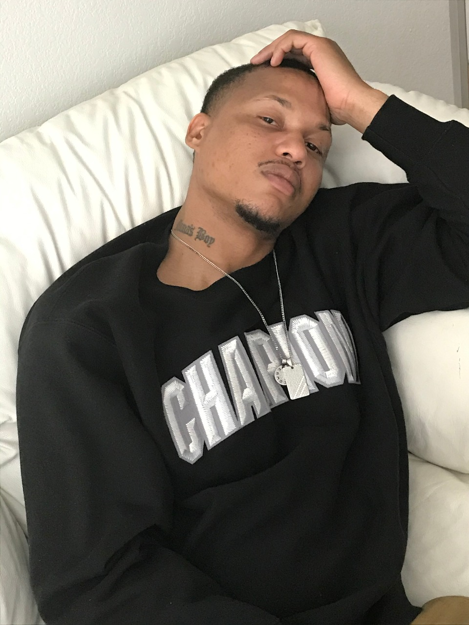 American rapper